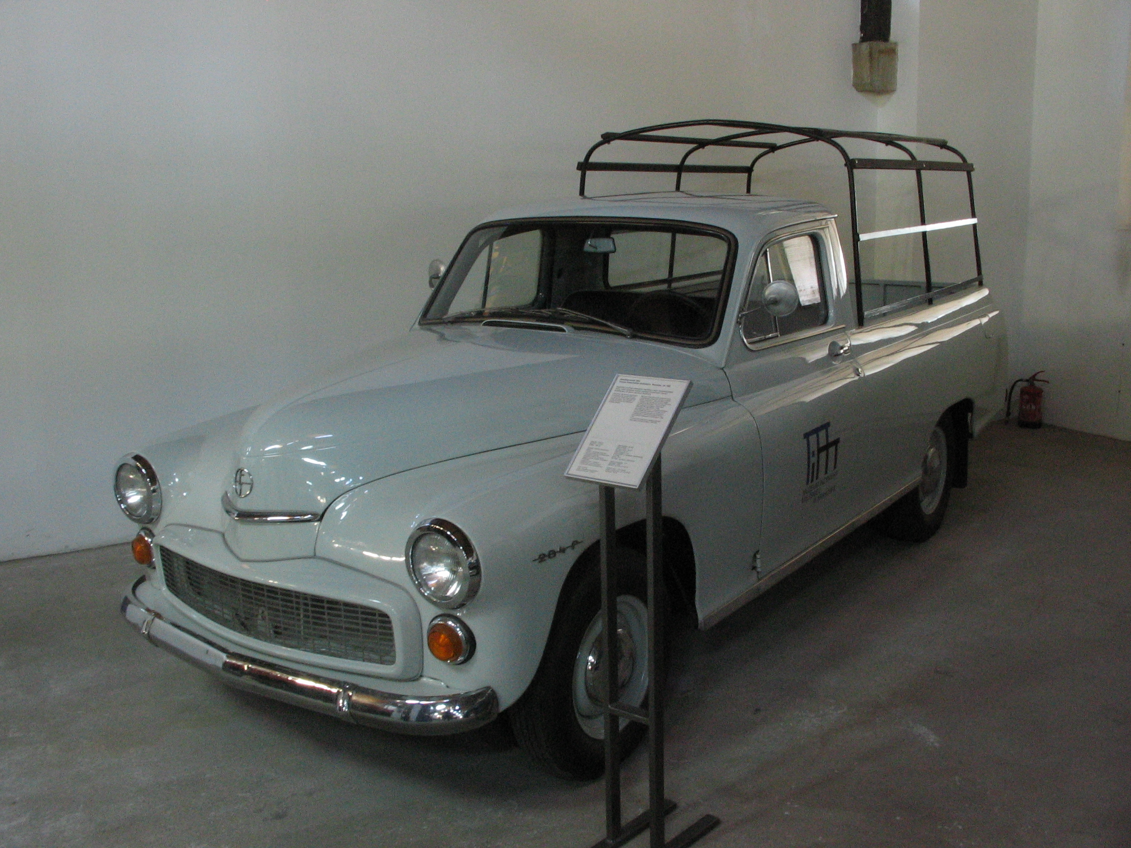 Polish FSO Warszawa 204 P pickup truck at Muzeum Inżynierii Miejskiej in Kraków, Poland.